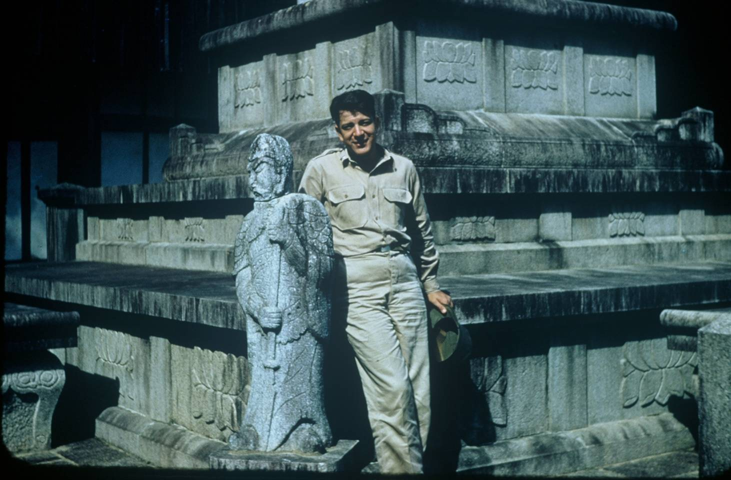 During the Korean War, Hugo Moser enlisted in the Army. This is a picture of him in the service.